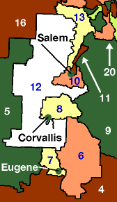 State Senate districts of Oregon's Willamette River Valley